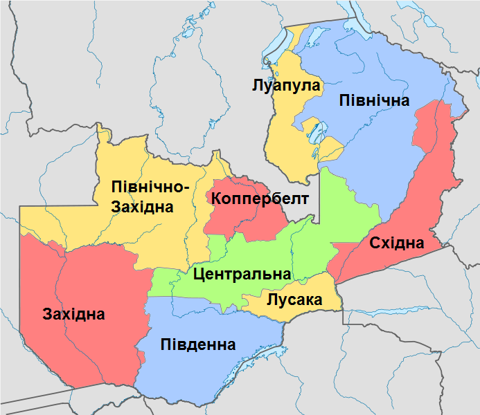 Provinces of Zambia with Ukrainian Names